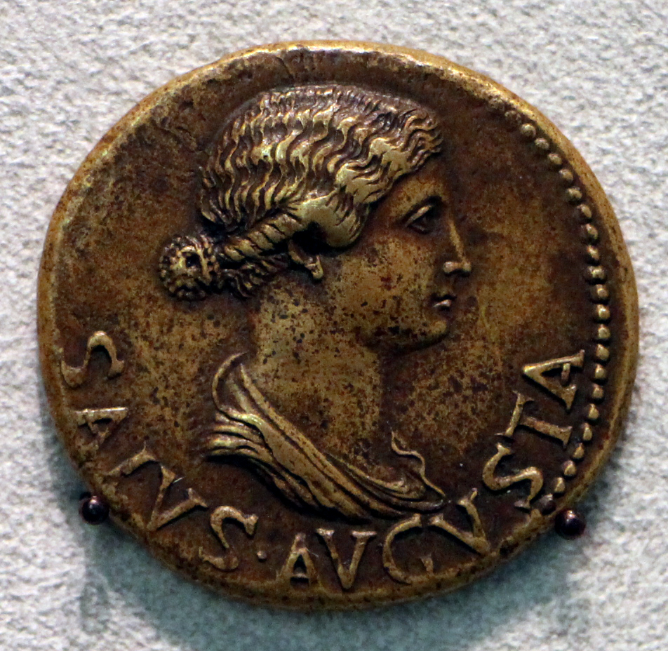 Ancient Roman coins in the Altes Museum Berlin